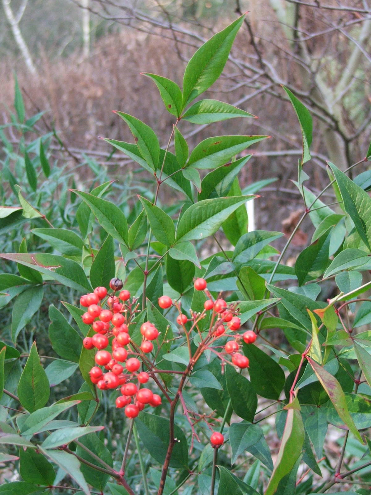 Nandina domestica - MTA Botanic Garden, Hungary